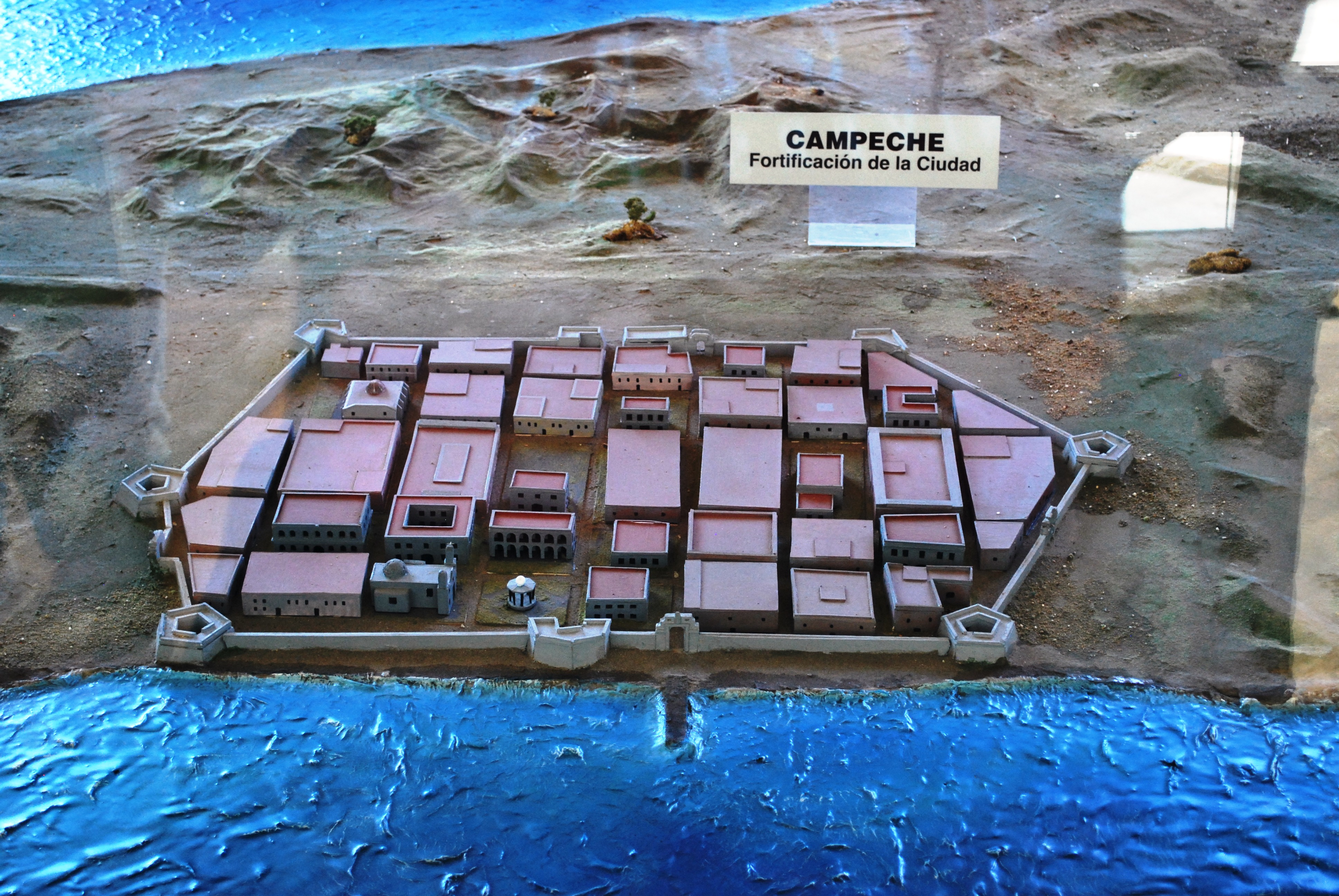 Model of the fortification of the old city of San Francisco Campeche on display at the Naval History Museum in Mexico City